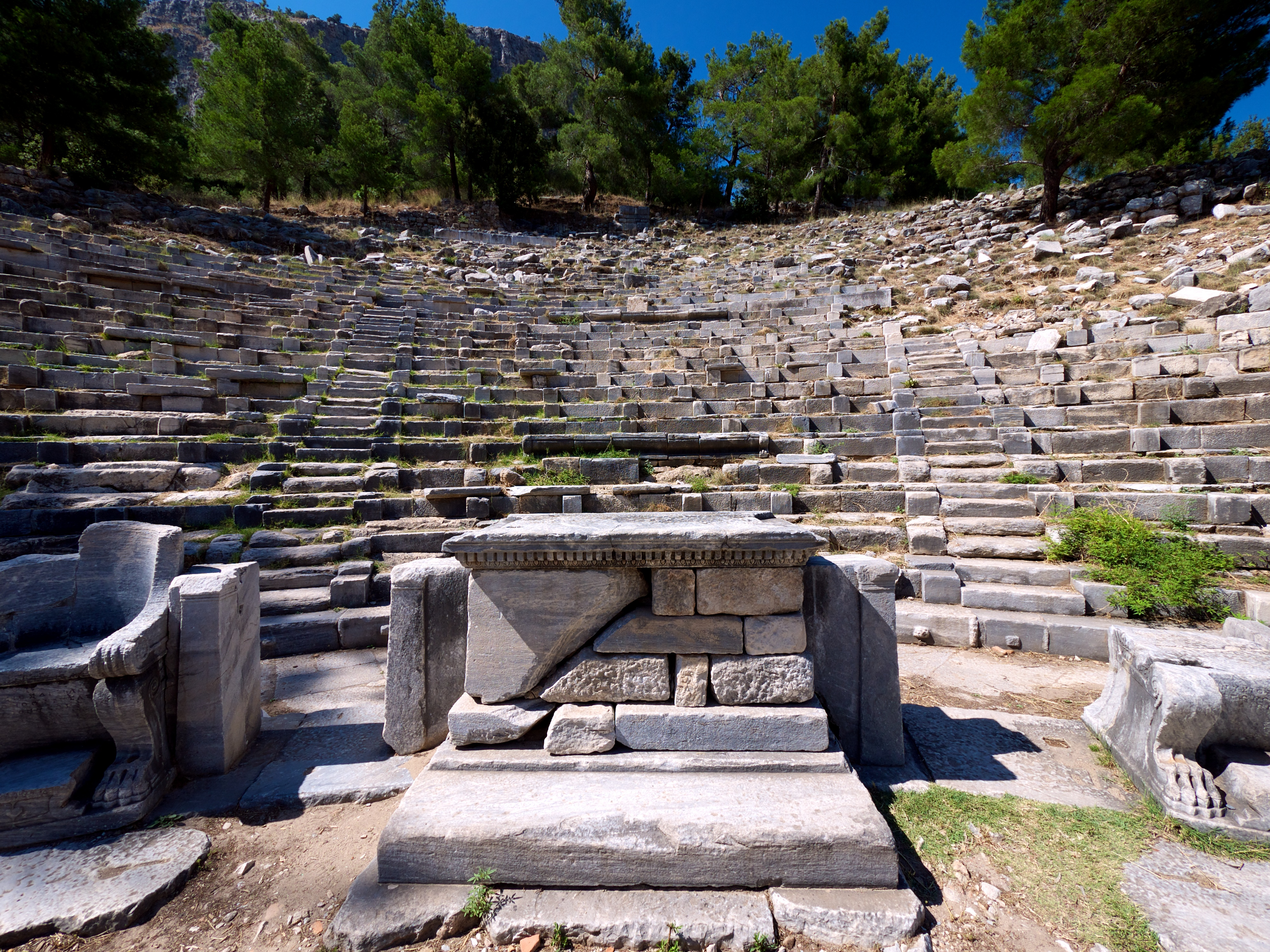 Priene Greek theatre